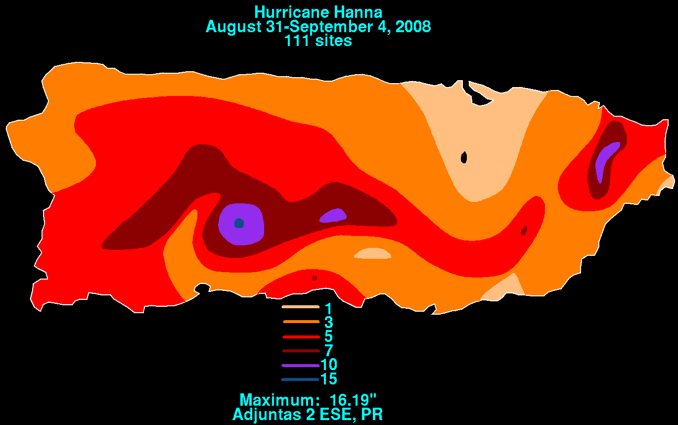 Rainfall produced by Hurricane Hanna in Puerto Rico during August and September 2008.